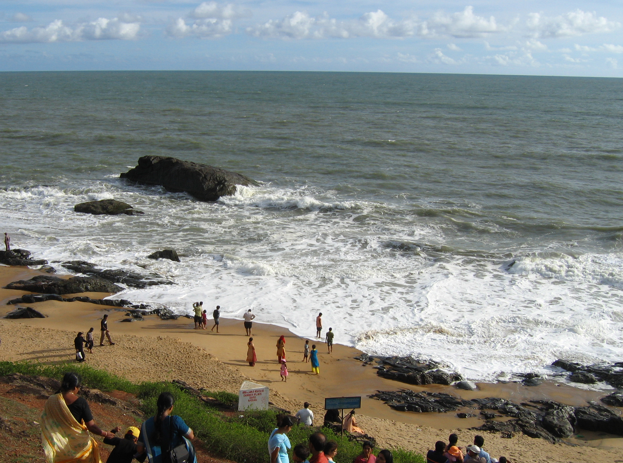 Bakel Fort Beach Kasaragod